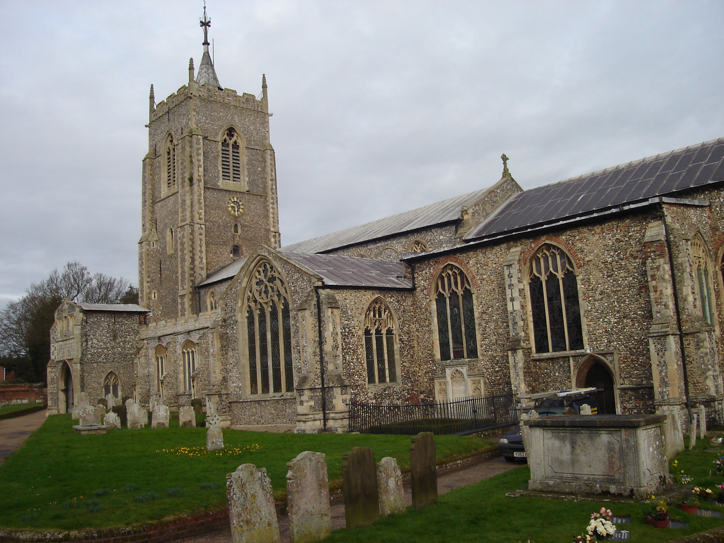 St Michaels Church Aylsham